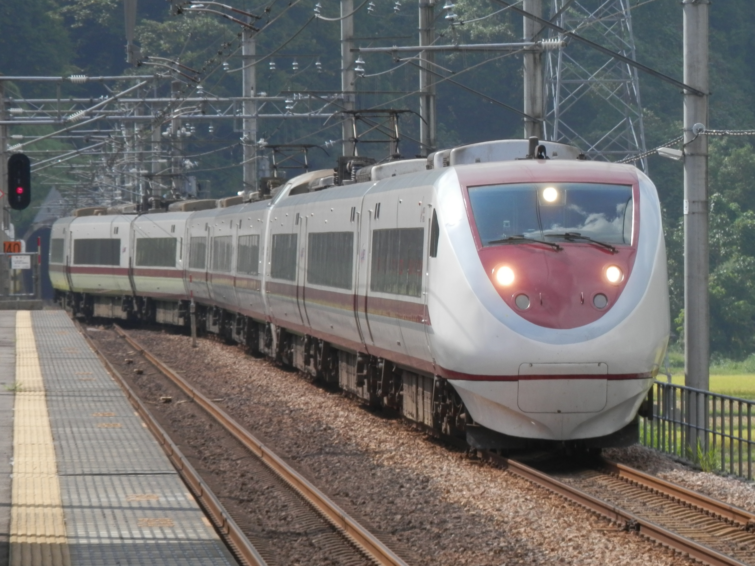 EMU of Hokuetsu Express Series 681 on a "Hakutaka" Limited Express at Mushikawaosugi